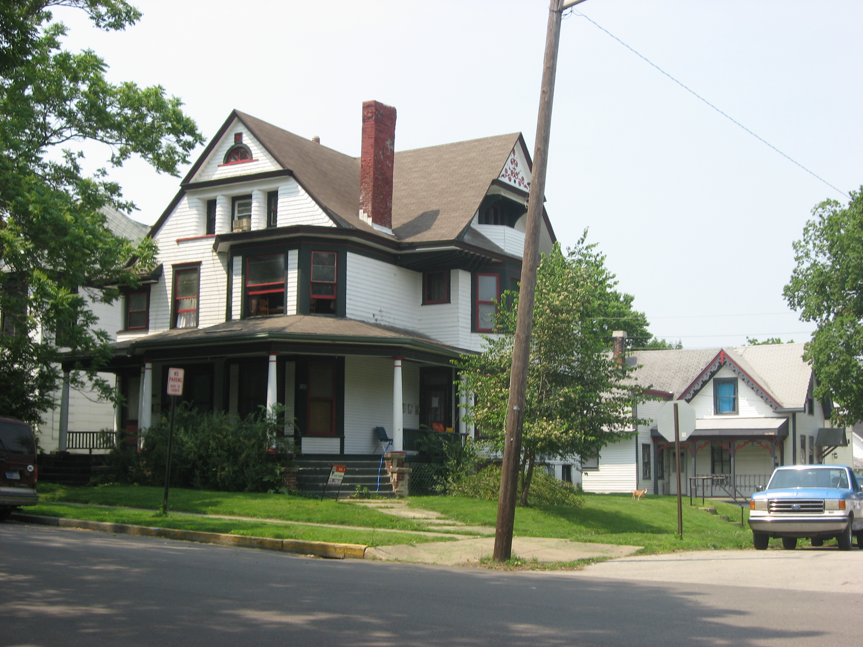 Houses on the southwestern corner of the junction of Sixth and New York Streets in Lafayette, Indiana, United States. This block is part of the Ellsworth Historic District, a historic district that is listed on the National Register of Historic Places.